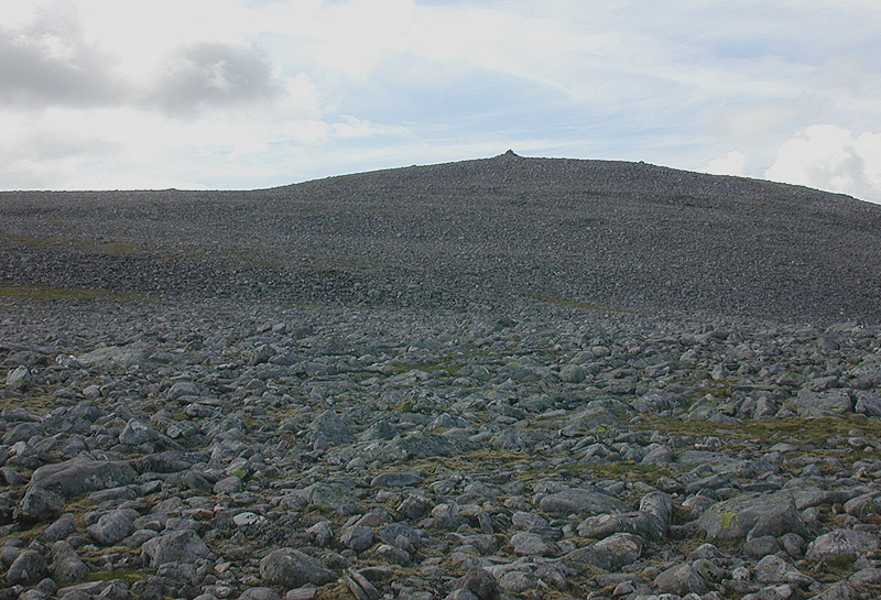 The summit of Beinn a' Chlachair Featureless stony slopes lead up to the summit from the south. On my first attempt I was stuck here in thick cloud and rapidly deteriorating conditions; I didn't even bother looking for the summit, but beat a hasty retreat!